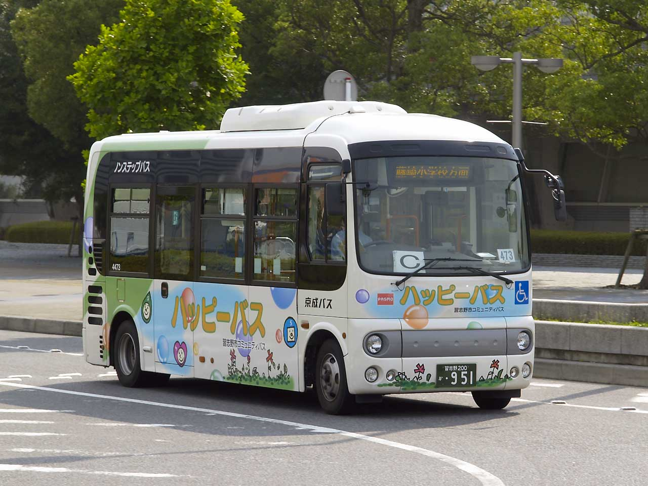 Fleet of "Happy Bus" in Narashino City, operated by Keisei Bus. Model: Hino Poncho HX6JLAE License plate: CBN200 KA-951 Place: Shin-Narashino station, Narashino City, Chiba Japan